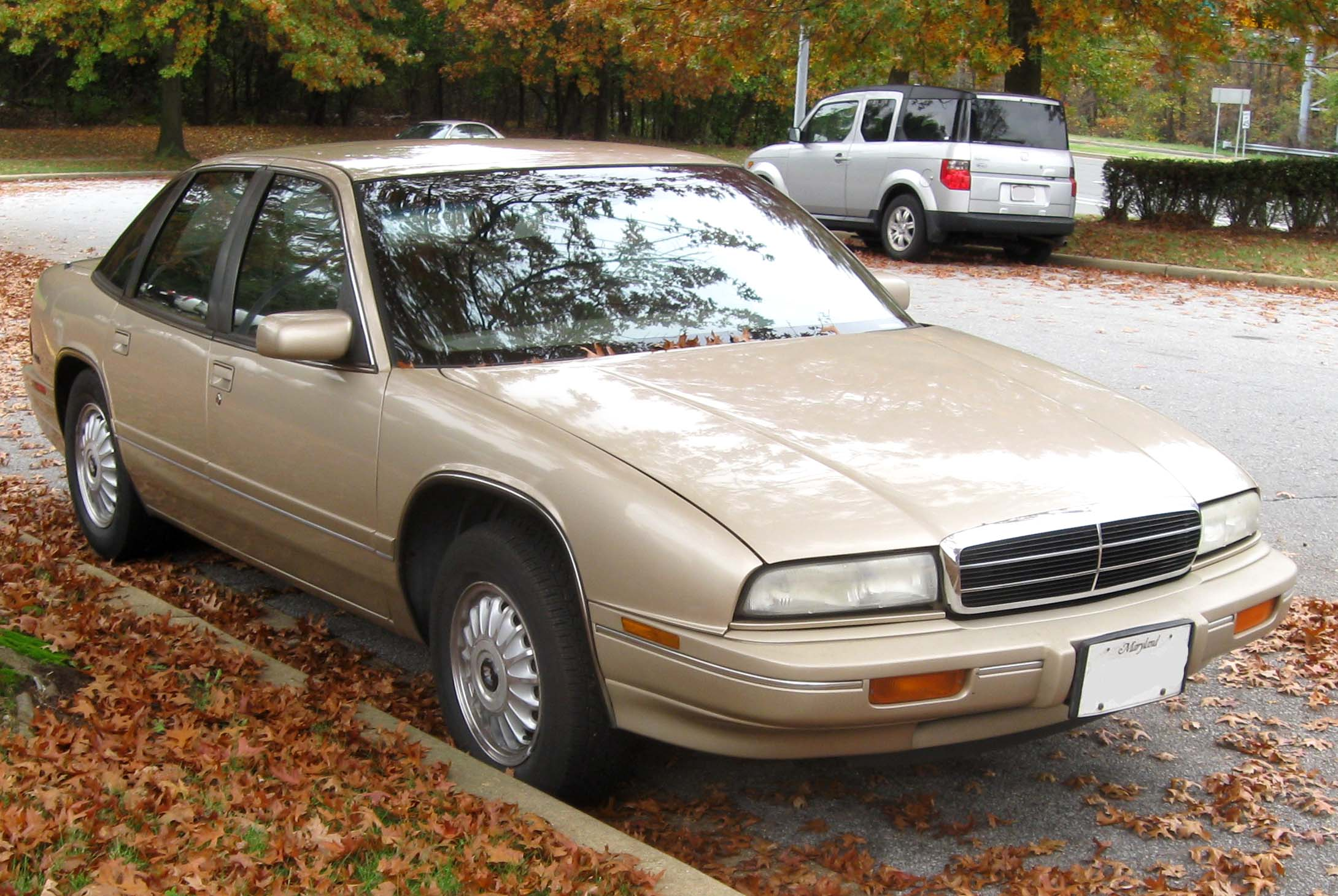 1988-1994 Buick Regal Custom photographed in Greenbelt, Maryland, USA.